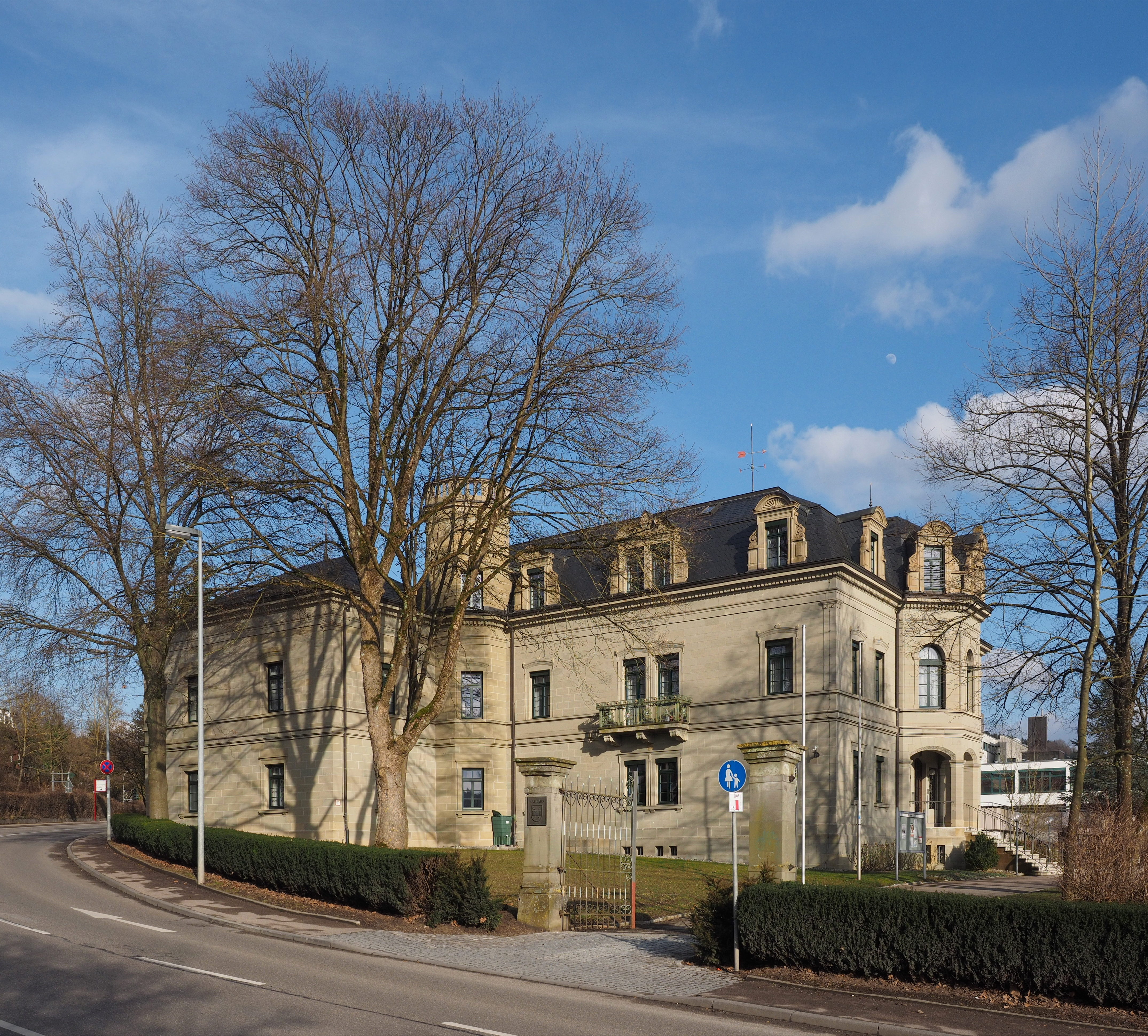 Gaildorf Town Hall "Neues Schloss", Germany